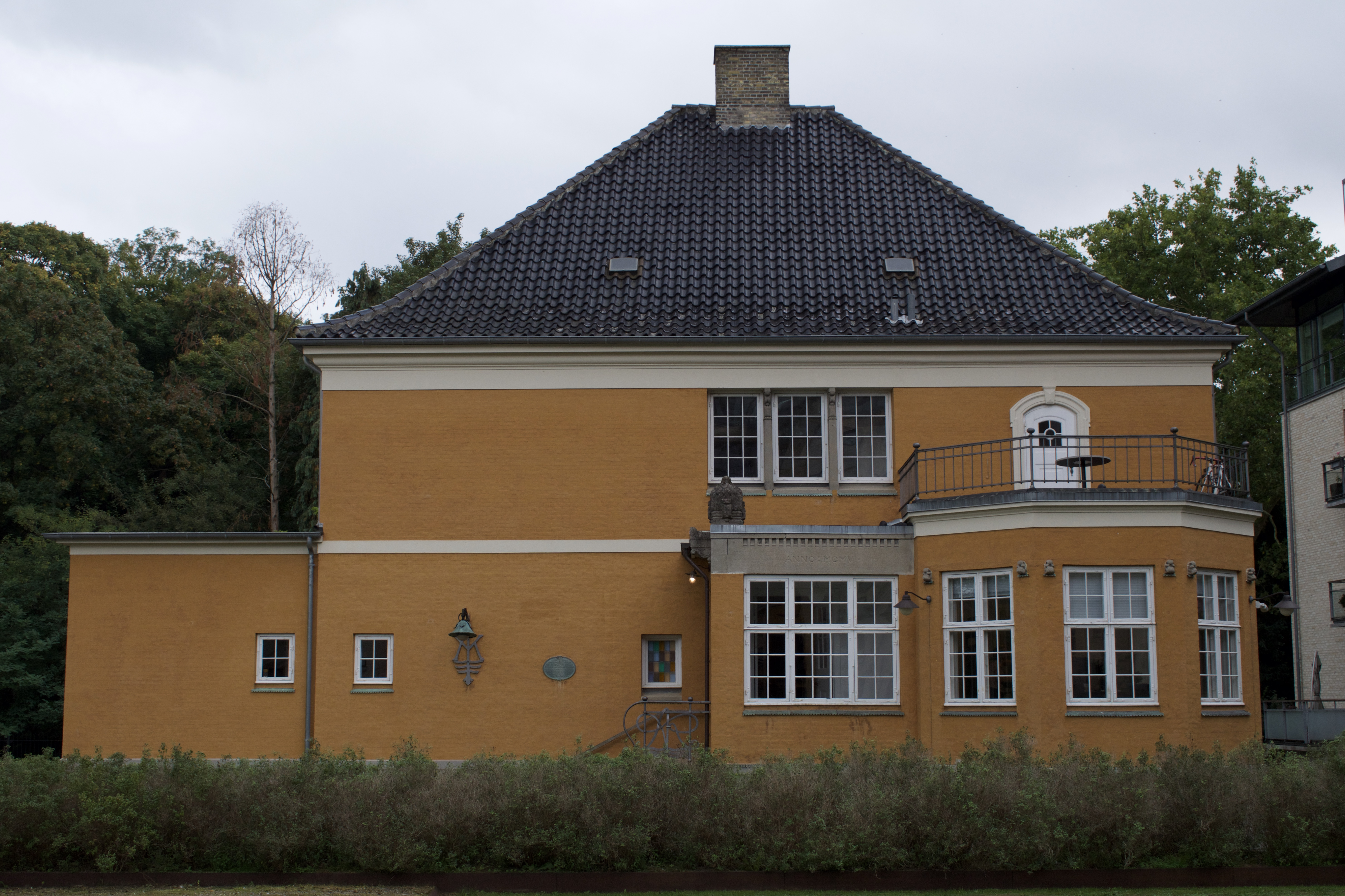 Former residence of the CEO of Royal Copenhagen - north facing façade